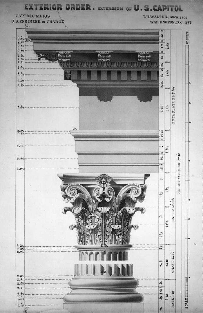 [United States Capitol (Washington, D.C.). Extension. Exterior order] / Capt. M.C. Meigs, U.S. engineer in charge ; Tho. U. Walter, architect, Washington, D.C., 1854.